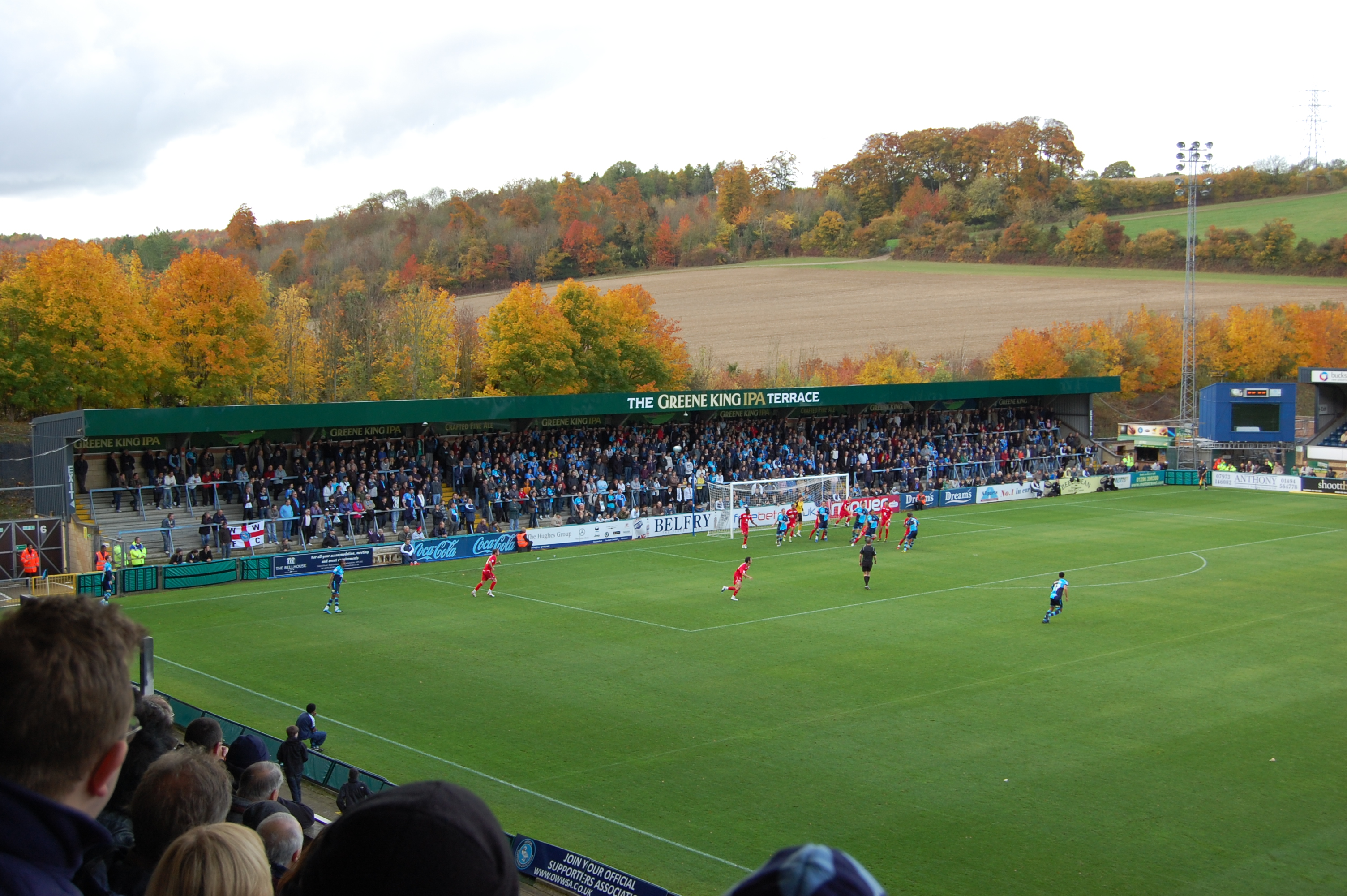 An autumn day at Adams Park - Wycombe Wanderers v Lincoln City 30/10/2010